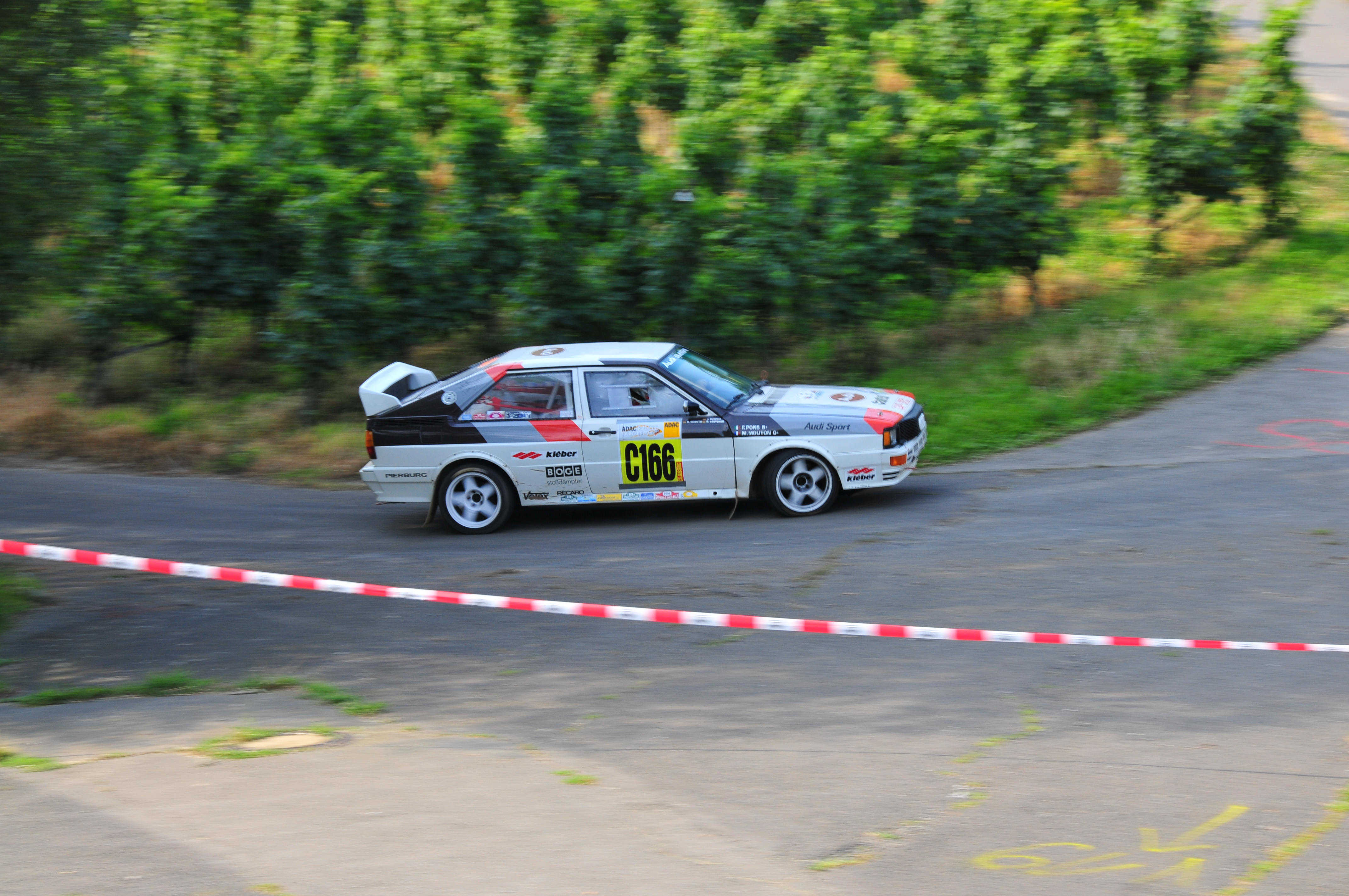 Michèle Mouton's Audi Quattro driven during the 2008 Rallye Deutschland.